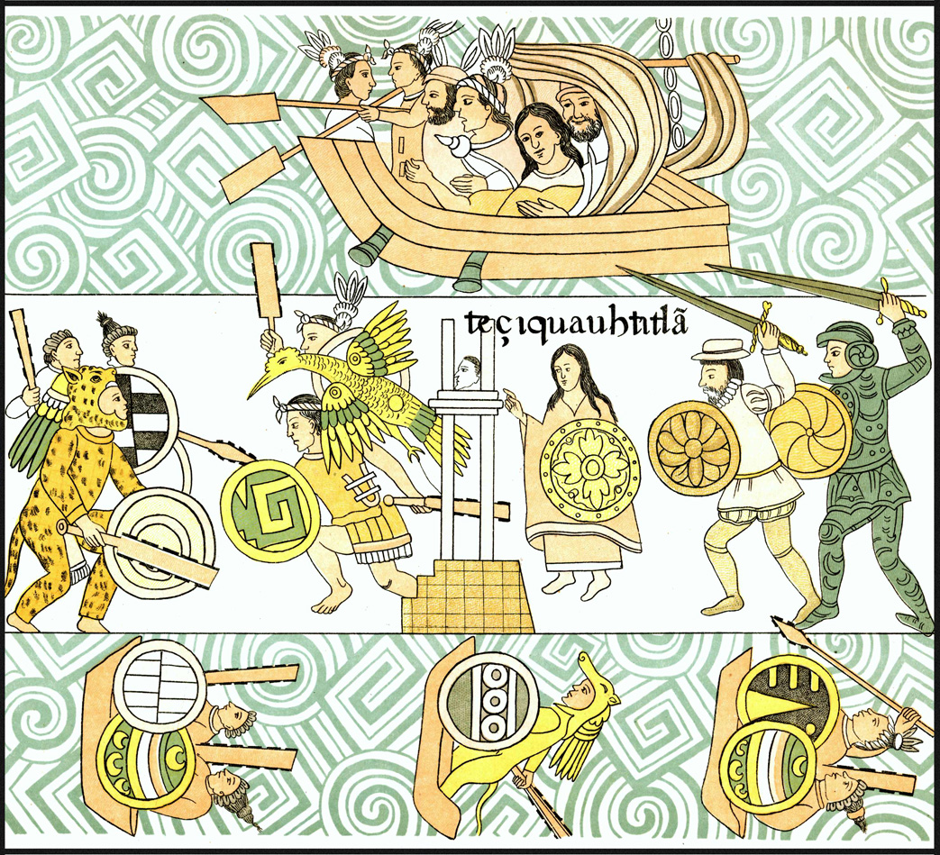 Anfibian attack of spanish-tlaxcallan forces. Malinche and Cortés. Depicted by spanish tlaxcallan native allies. 1773 Reproduction from 1584 original version of the Lienzo de Tlaxcala.